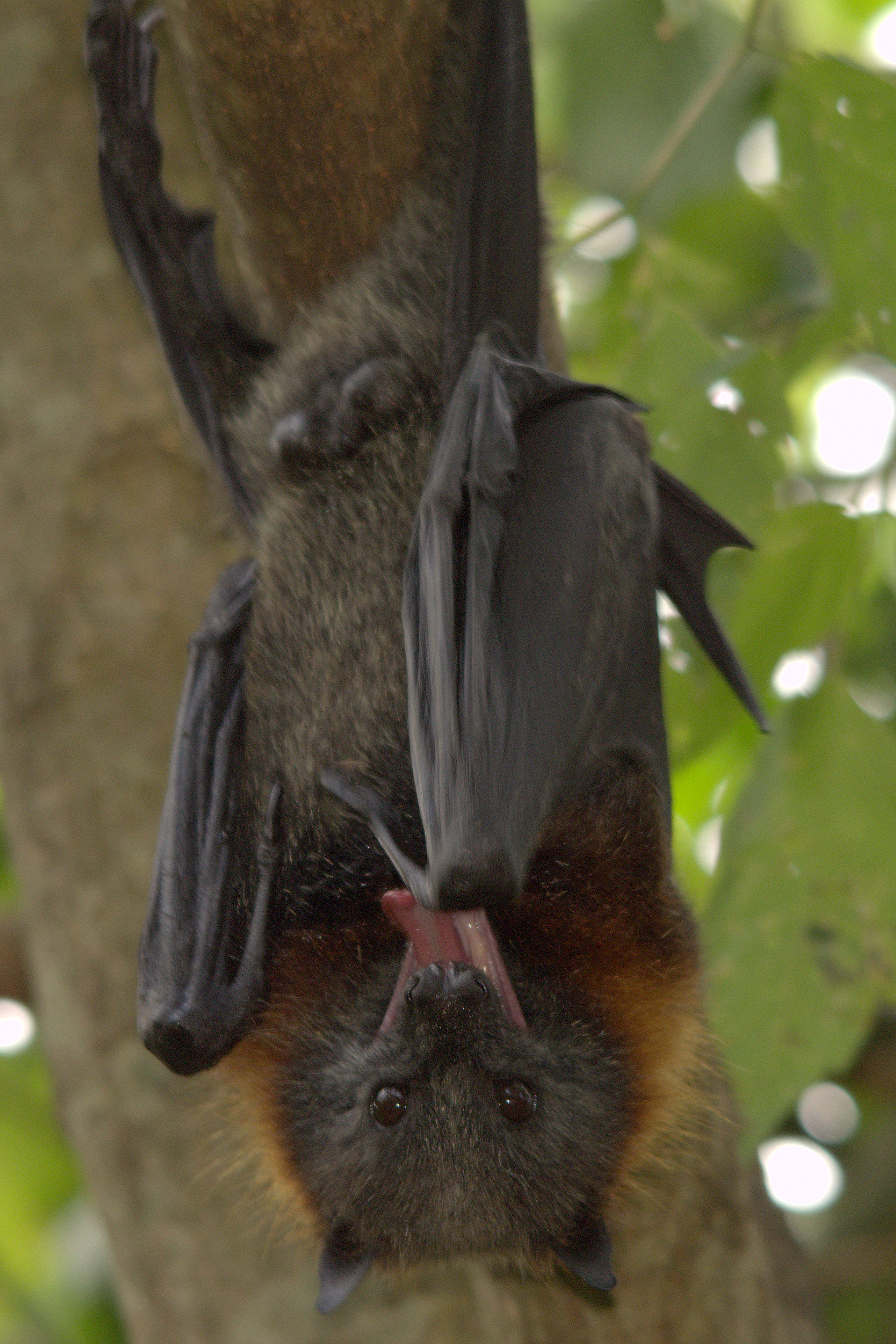 Adult male grey-headed flying fox, Pteropus poliocephalus, suffering from heat stress